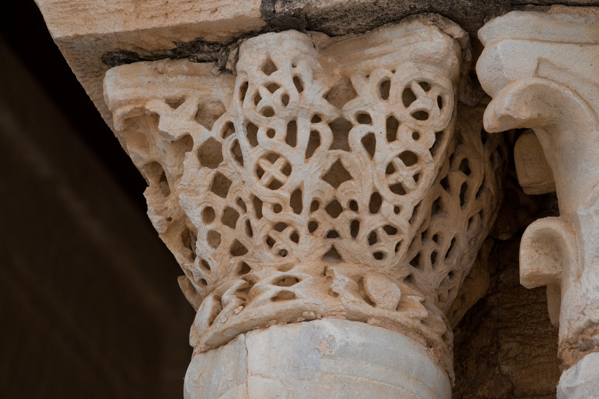 Byzantine capital of the south portico of the courtyard in the Great Mosque of Kairouan.